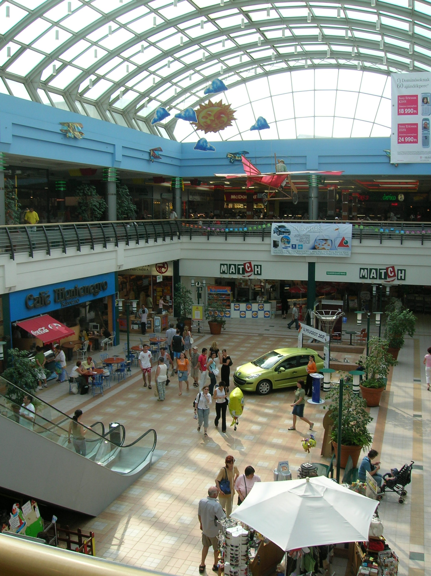 Inside of Miskolc Plaza shopping mall in Miskolc, Hungary.